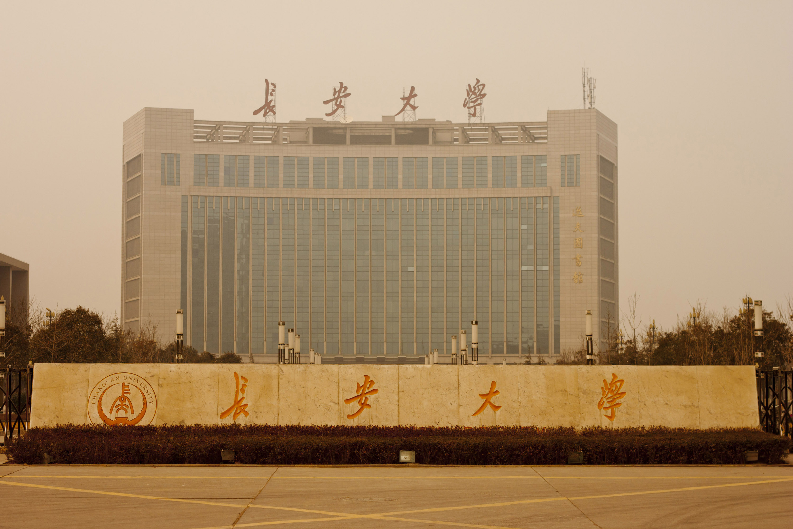 Chang'an University Gate